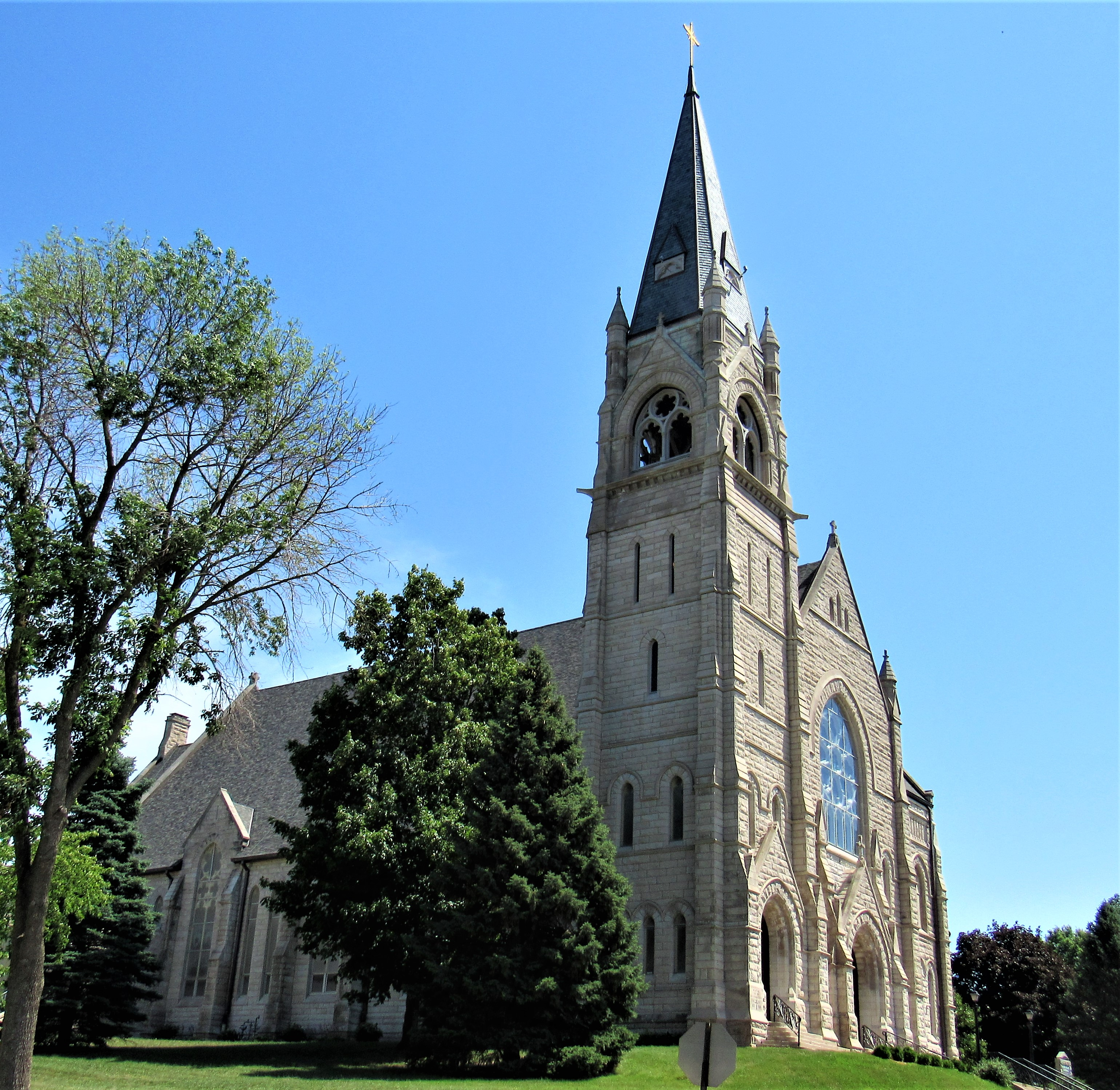 Sacred Heart Cathedral in Davenport, Iowa.